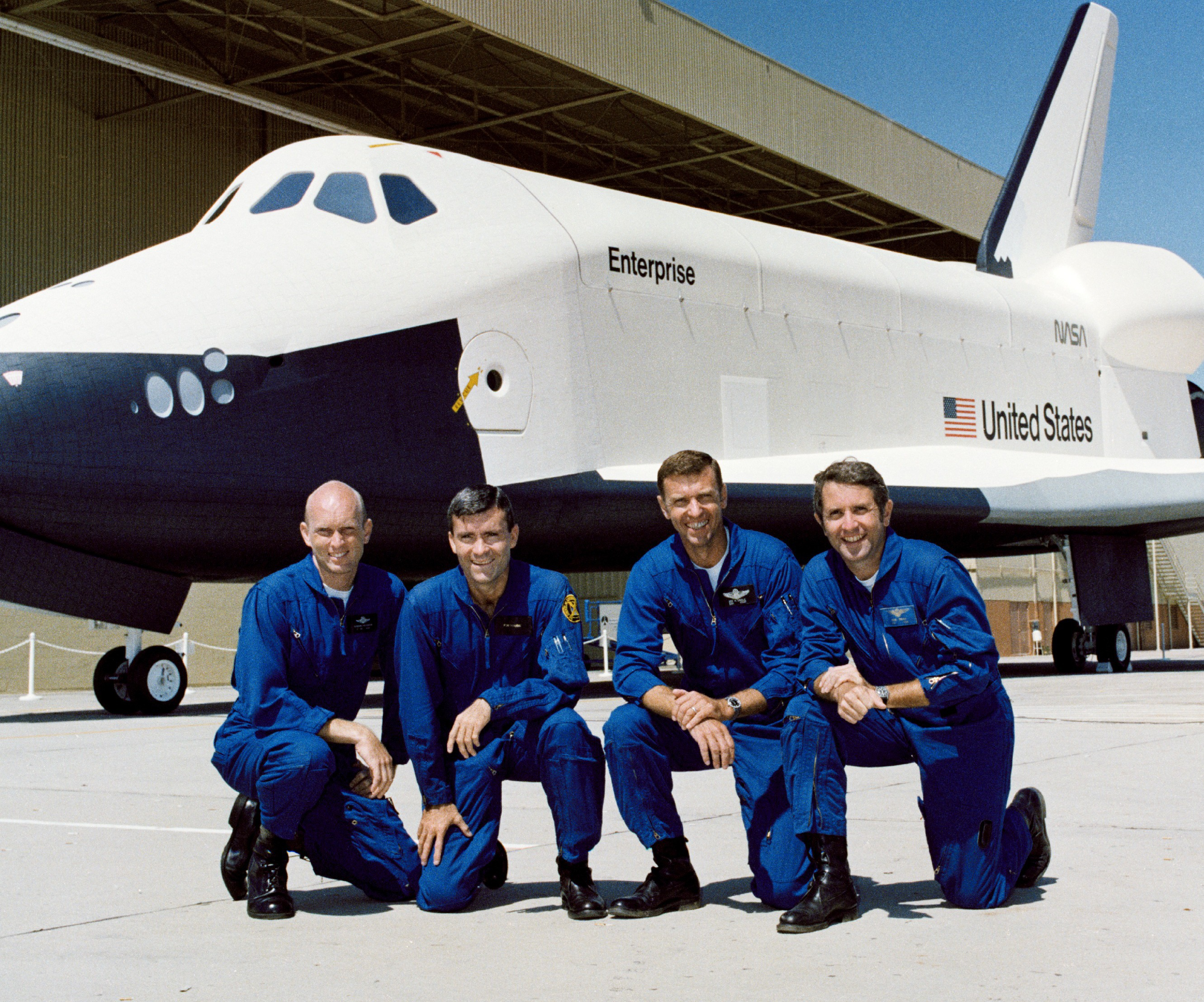 The two crews for the Space Shuttle Approach and Landing Tests (ALT) are photographed at the Rockwell International Space Division's Orbiter assembly facility at Palmdale, California on the day of the rollout of the Shuttle Orbiter 101 "Enterprise" spacecraft. They are, left to right, Astronauts C. Gordon Fullerton, pilot of the first crew; Fred W. Haise Jr., commander of the first crew; Joe H. Engle, commander of the second crew; and Richard H. Truly, pilot of the second crew. The DC-9 size airplane-like Orbiter 101 is in the background.